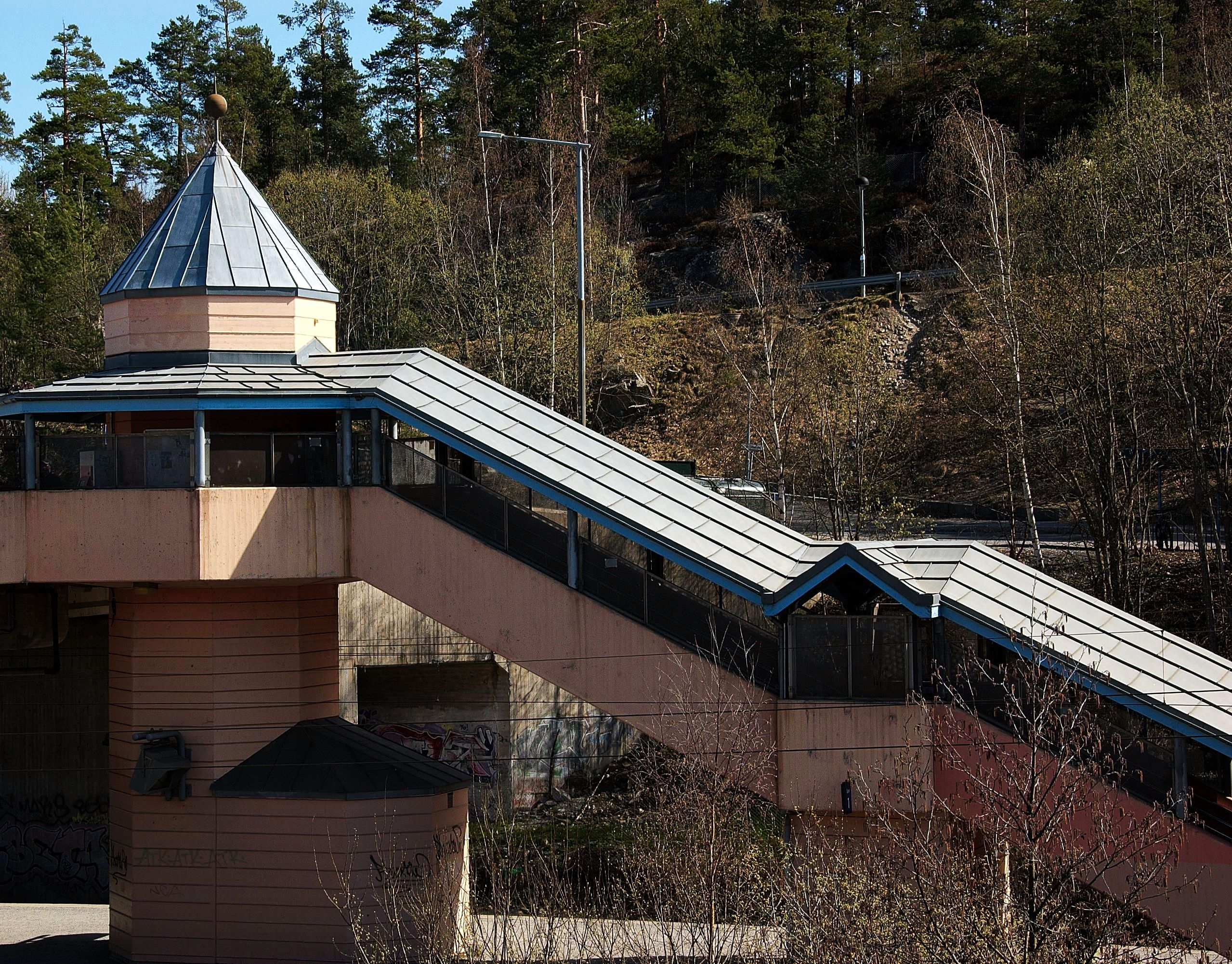 Holmlia trainstation, Oslo